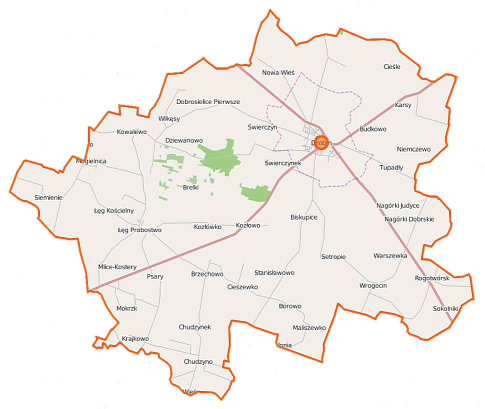 Map of Gmina Drobin, Poland This map of Drobin (gmina) was created from OpenStreetMap project data, collected by the community. This map may be incomplete, and may contain errors. Don't rely solely on it for navigation. Border coordinates52.785119.8142←↕→20.080352.6491